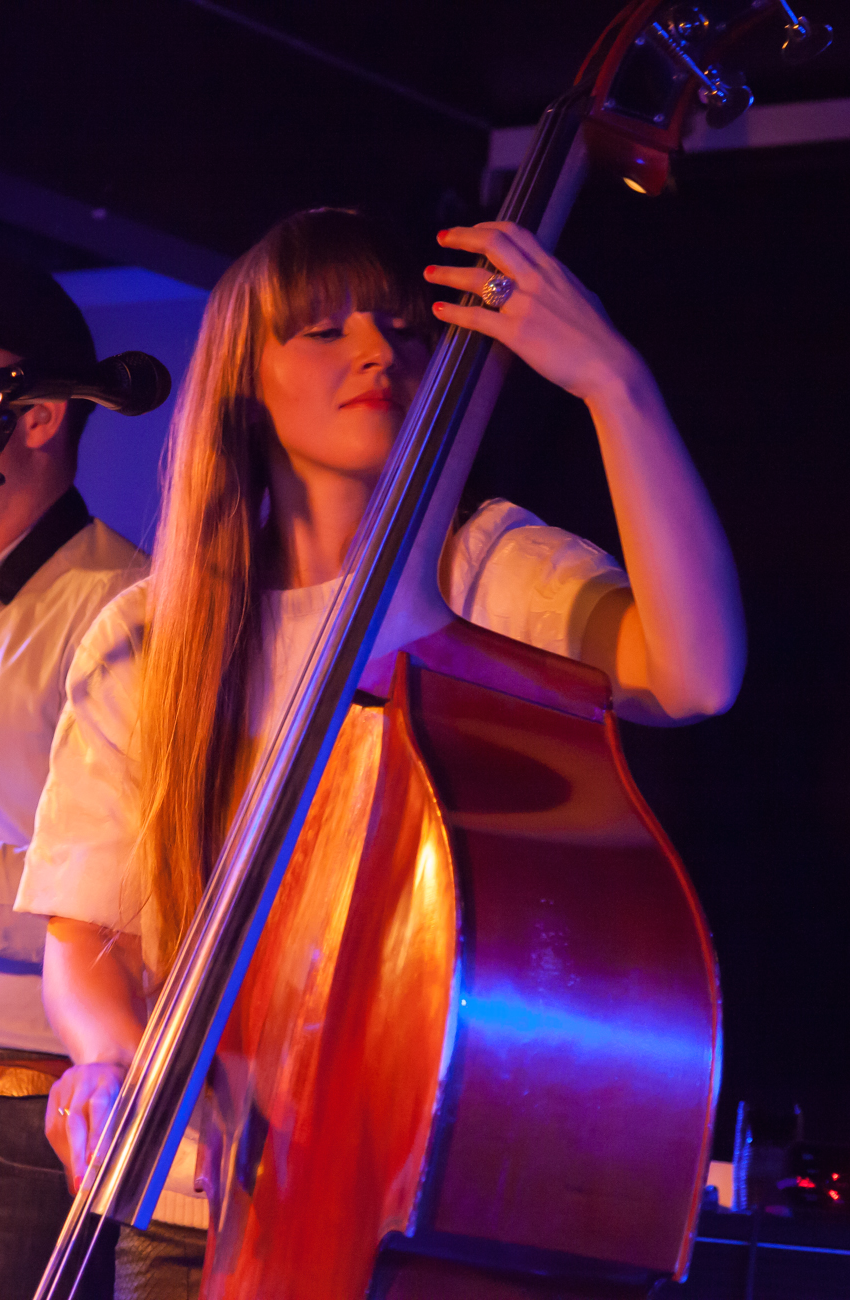 Ellen Andrea Wang 2013 Foto: Tore Pettersen